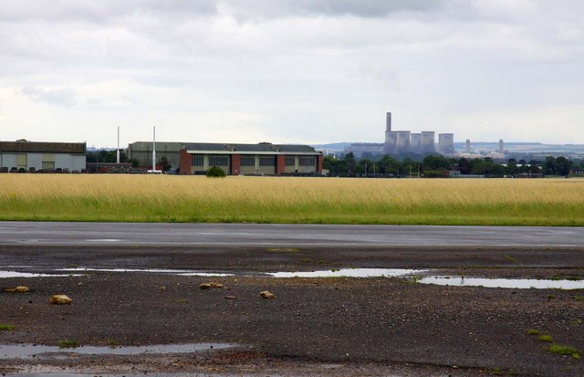 Looking across Abingdon Airfield to Dalton Barracks